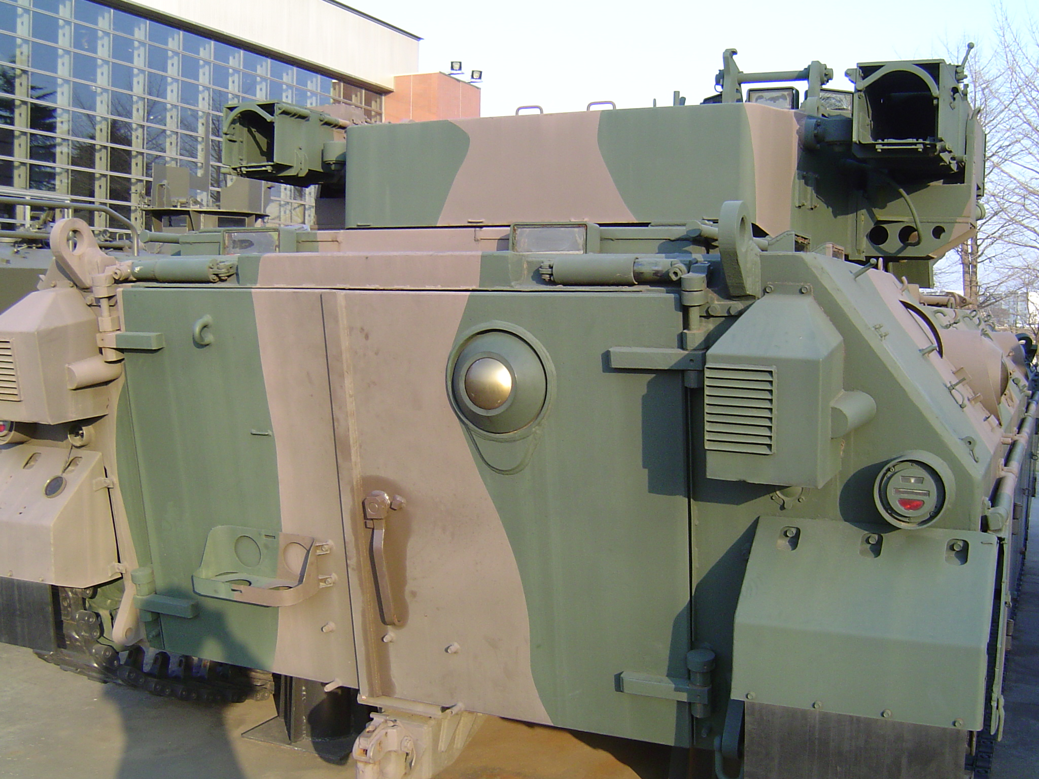 IFV type 89 of JGSDF at JGSDF PI center. ja:89式装甲戦闘車 Type 89 MICV